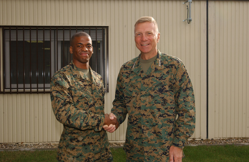 General Michael Hagee (USMC), pictured right, and Cpl. Lucas wearing the new MARPAT Uniform.